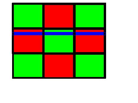 Break line in a matrix of pixels